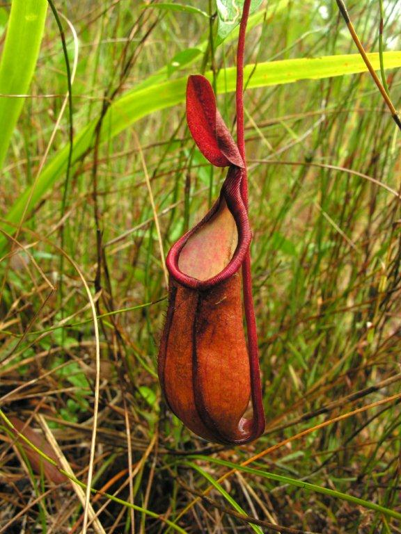 Nepenthes kampotiana lower pitcher